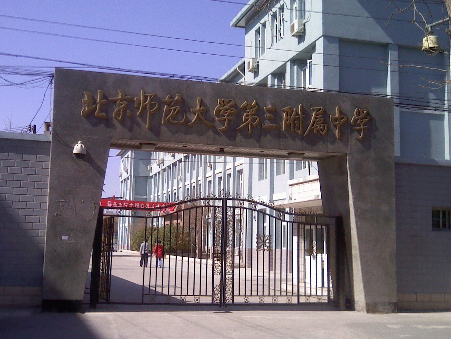 北京师范大学第三附属中学 - No.3 Middle School Attached to Beijing Normal University - 2011.03